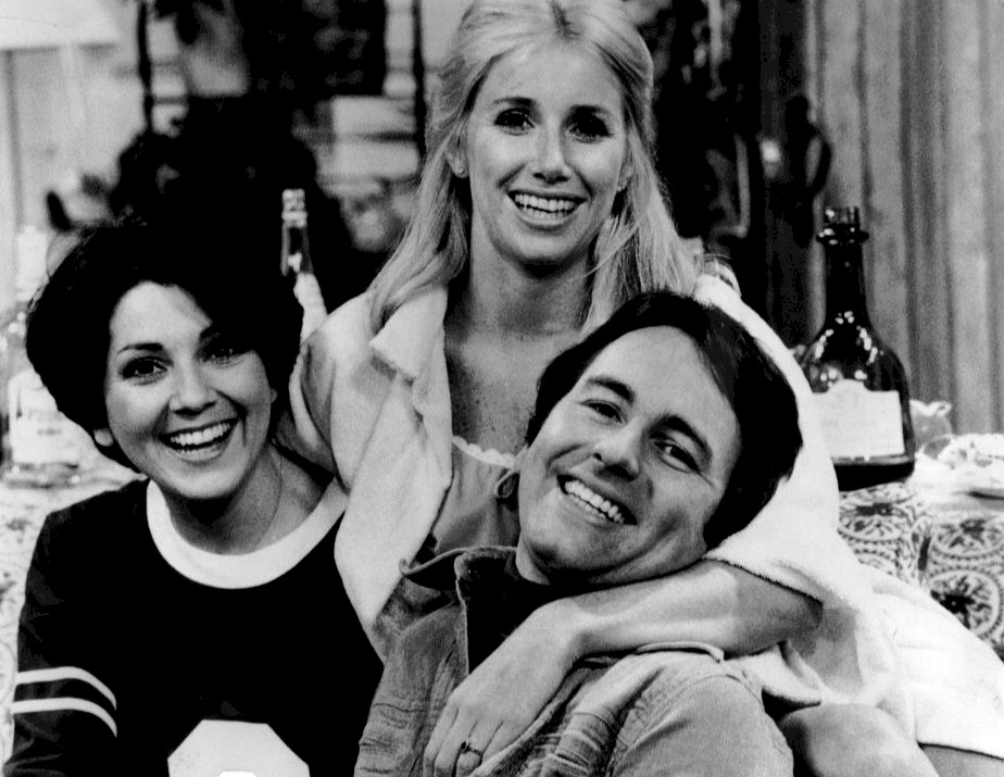 Publicity photo of the roommates from the television program Three's Company. From left: Joyce DeWitt (Janet}, Suzanne Sommers (Chrissy), John Ritter (Jack).